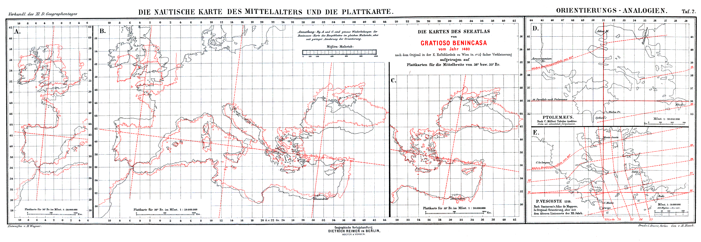 Wagner Cartometric in 1895